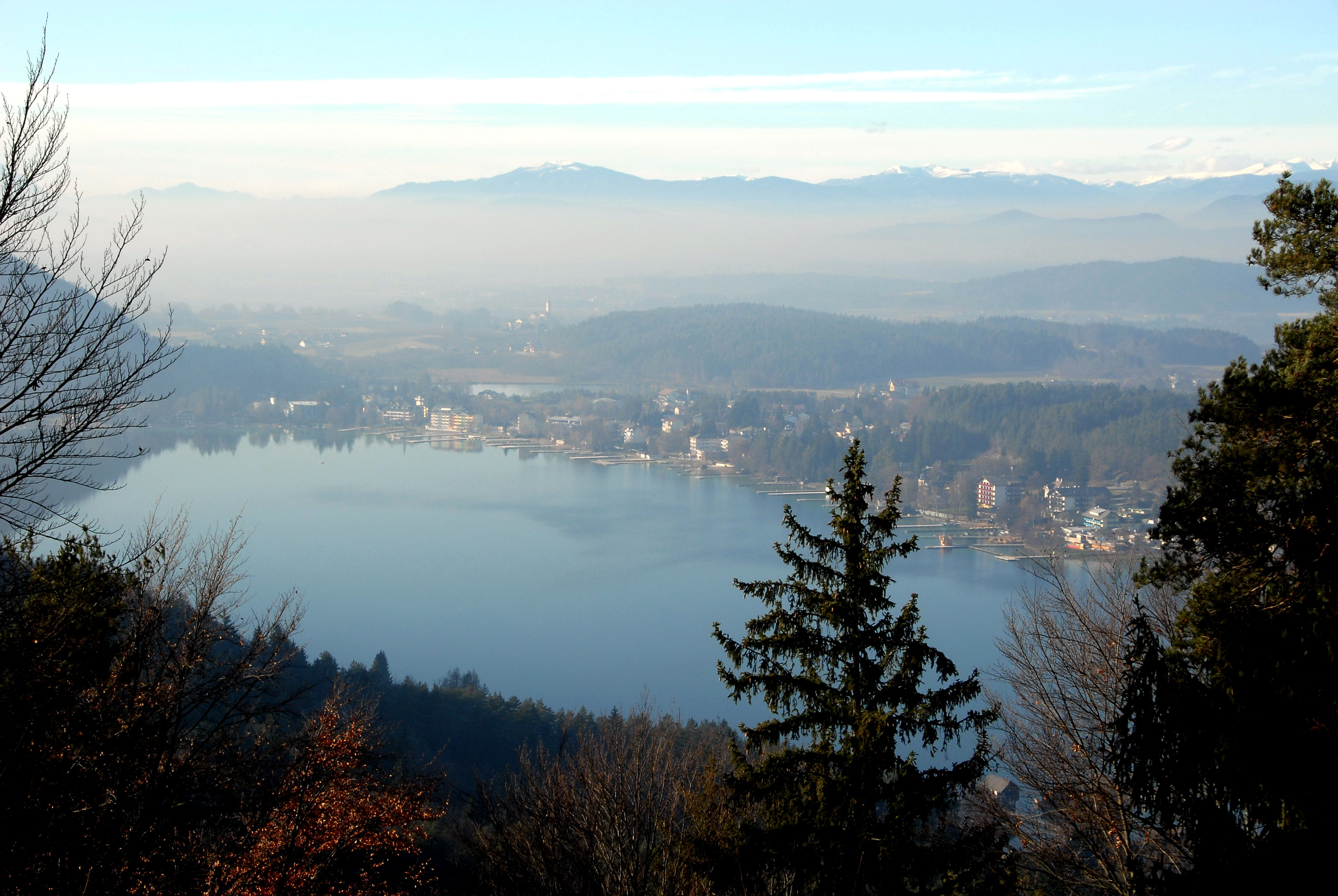 View of Lake Klopein (seen from the Mount Georg), municipality Sankt Kanzian am Klopeiner See, district Völkermarkt, Carinthia, Austria, EU